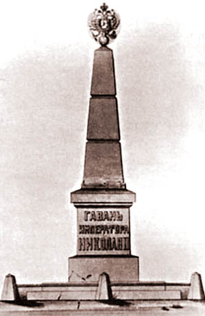 A photo of a monument, erected in 1900 at the Dnieper embankment to commemorate the end of construction works in Kyiv port. Demolished by the bolsheviks in the 1920s.